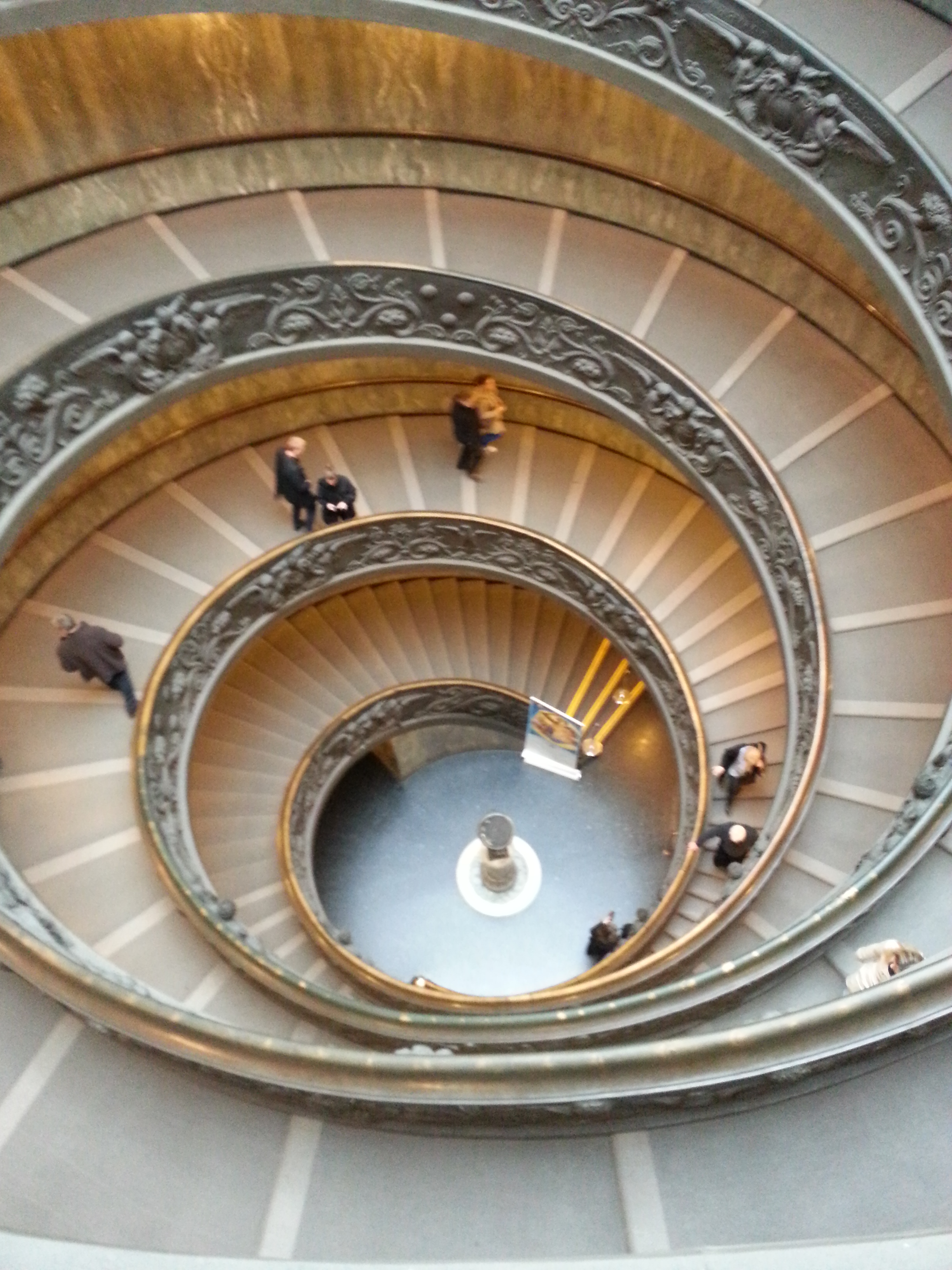 Stairs at the Vatican Museum